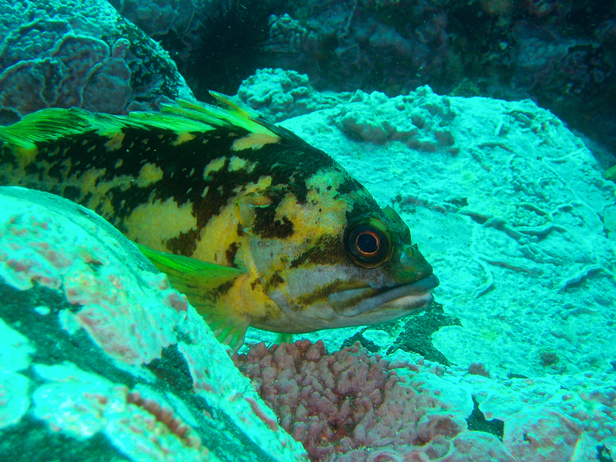 Black and yellow rockfish (Sebastes chrysomelas). California, Channel Islands NMS.